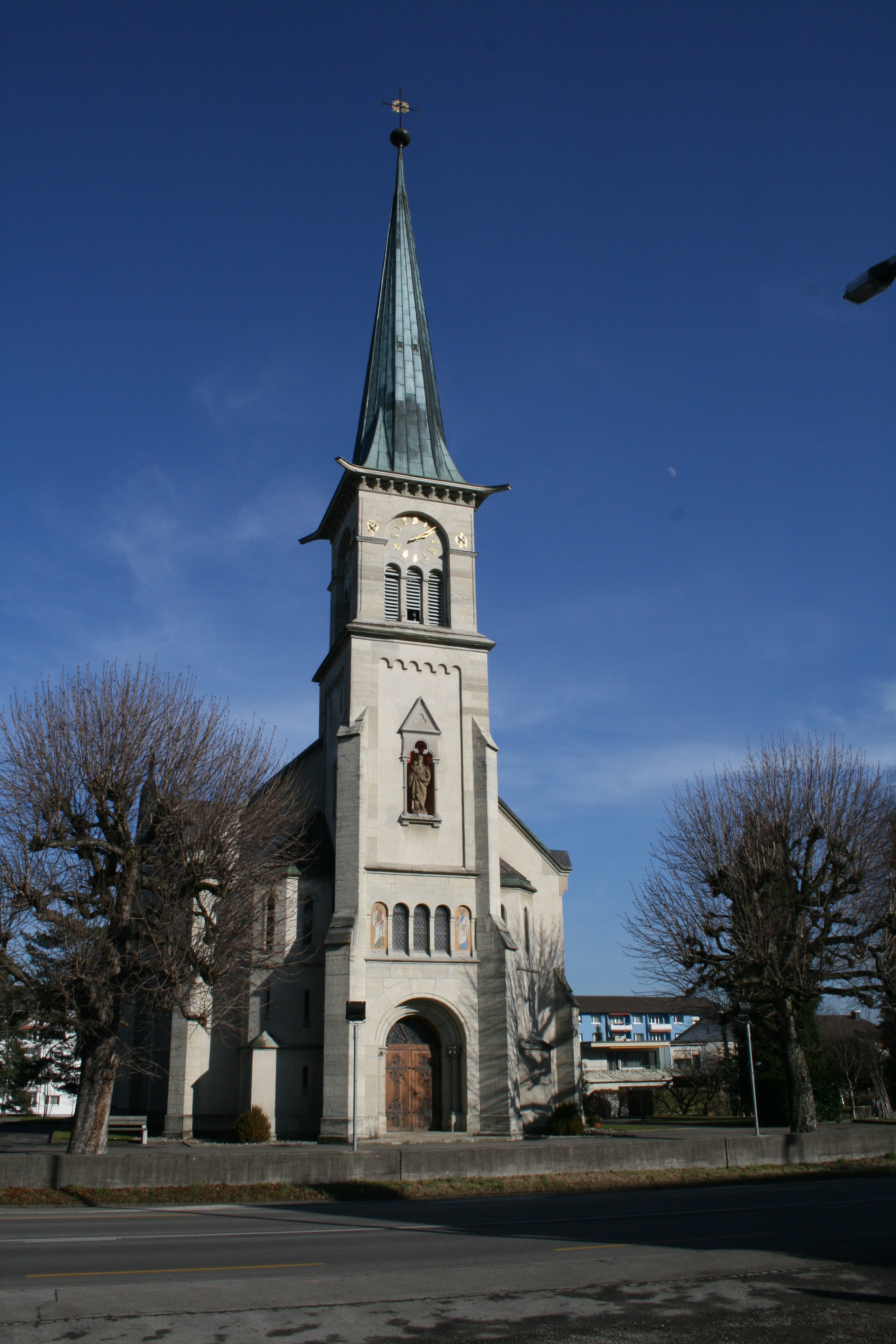 The rom.-cath. church of Neuenhof AG, Switzerland